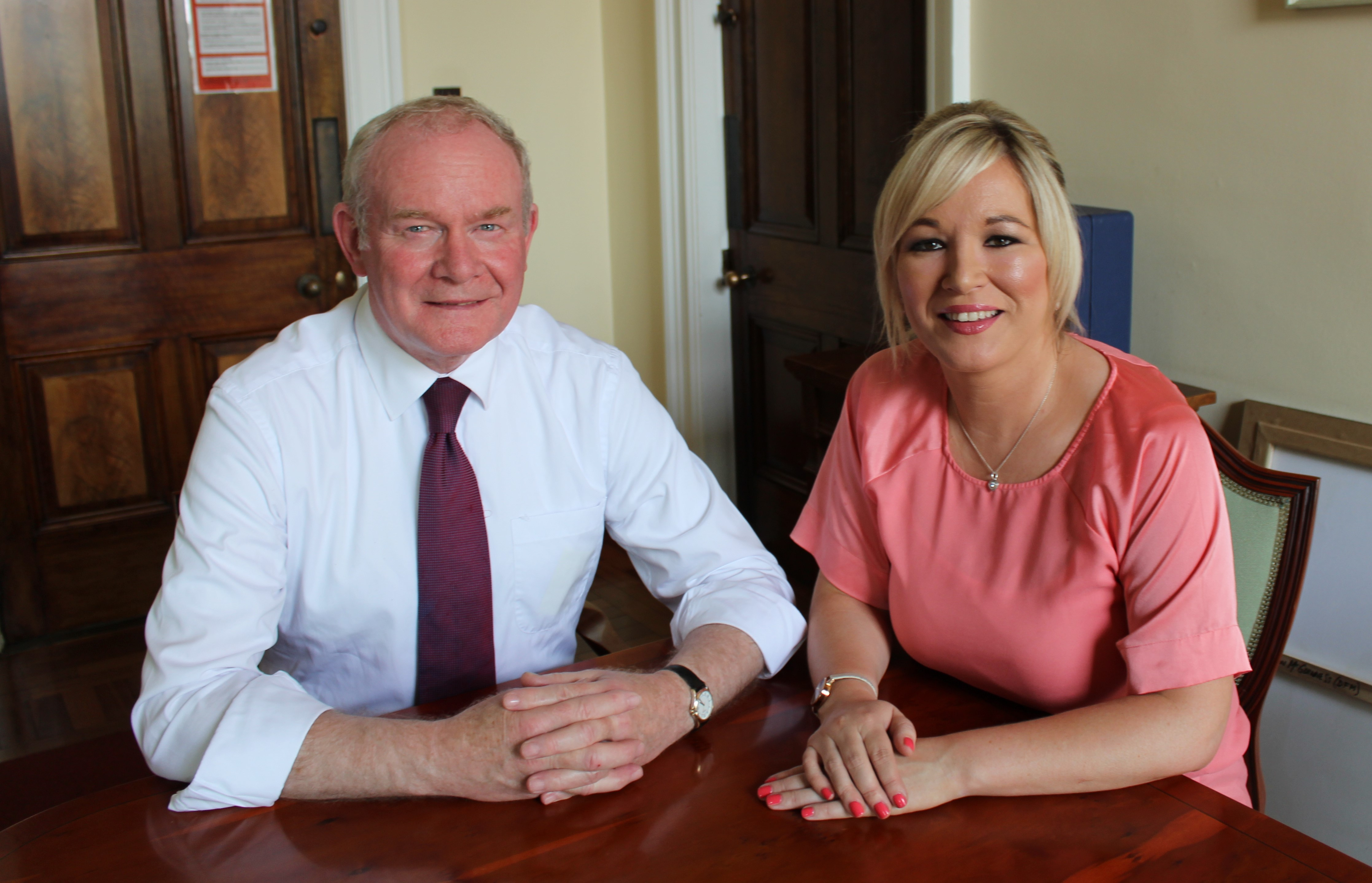 Martin McGuinness with Michelle O'Neill.